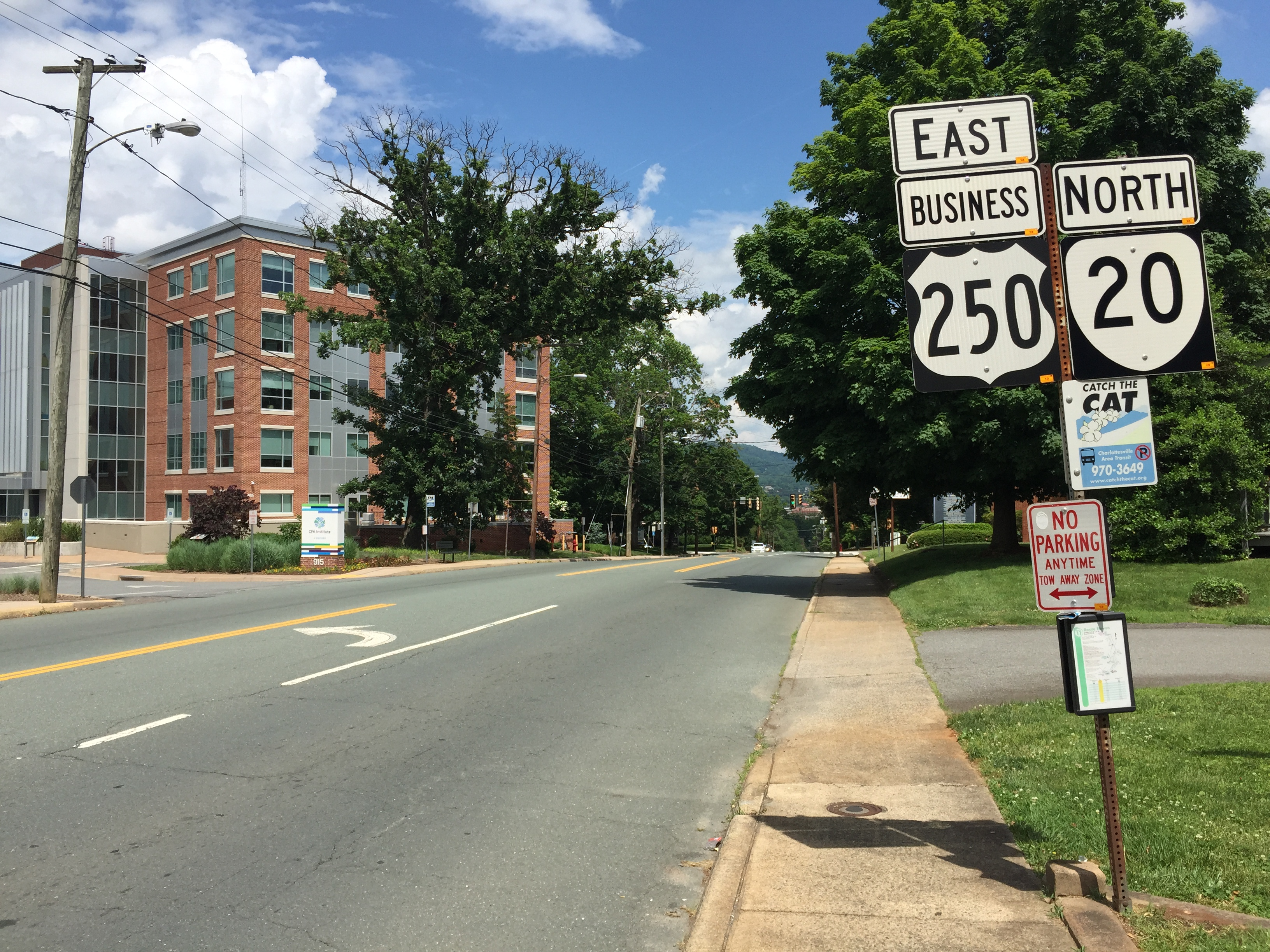 View east along U.S. Route 250 Business and north along Virginia State Route 20 (High Street) near 10th Street Northeast in Charlottesville, Virginia